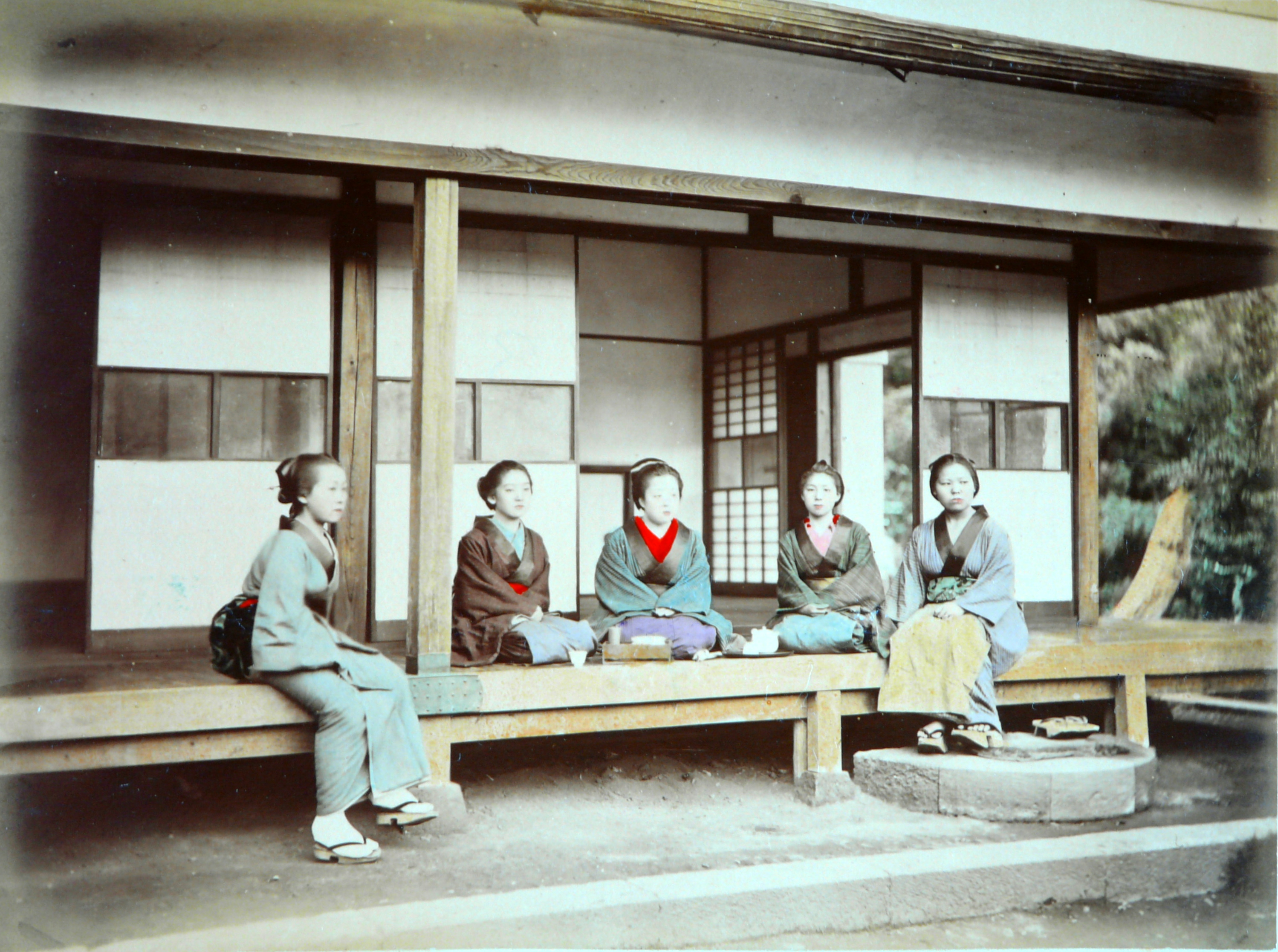 Painted photograph from Japan, dating from before 1886, according to a written note on the album containing the photographs. Presumed Author of the original photographs: Adolfo Farsari.